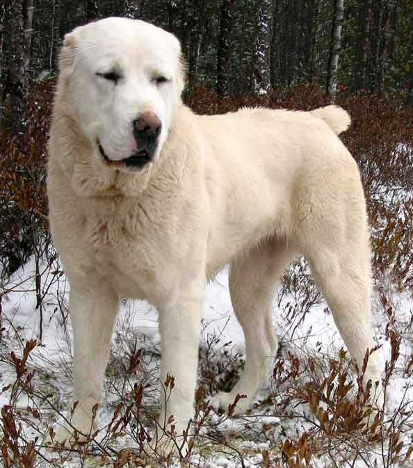 TEDZHEN iz Jevdokimovoi Storozhki. Owned by breeding-ground BARONAS from Lithuania CO & CAO CLUB "BALTIJA". 18 months old in this picture